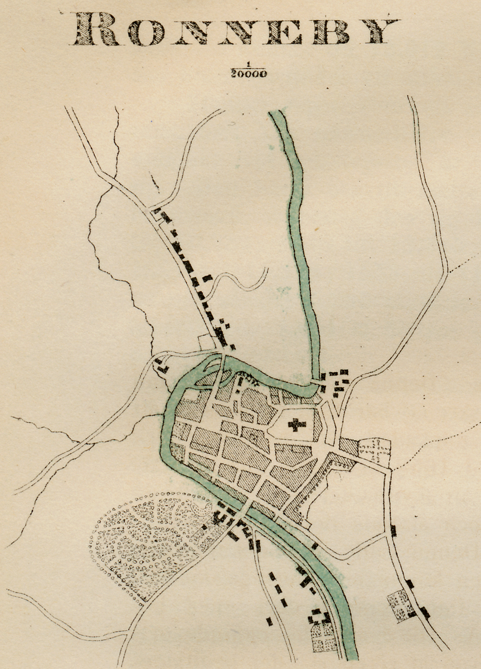 Map from about 1850 of the town of Ronneby in Sweden.